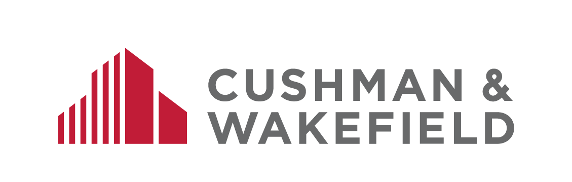 This is the brand new logo of the Real Estate Service company named: Cushman & Wakefield, made by the Liquid Agency in 2015 to renew the image of the company.